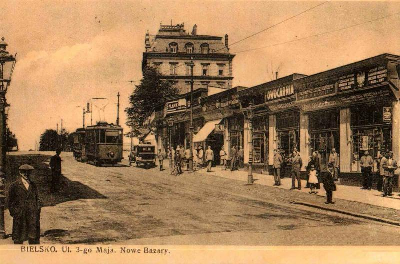 3 Maja Street in Bielsko-Biała in 1920s.